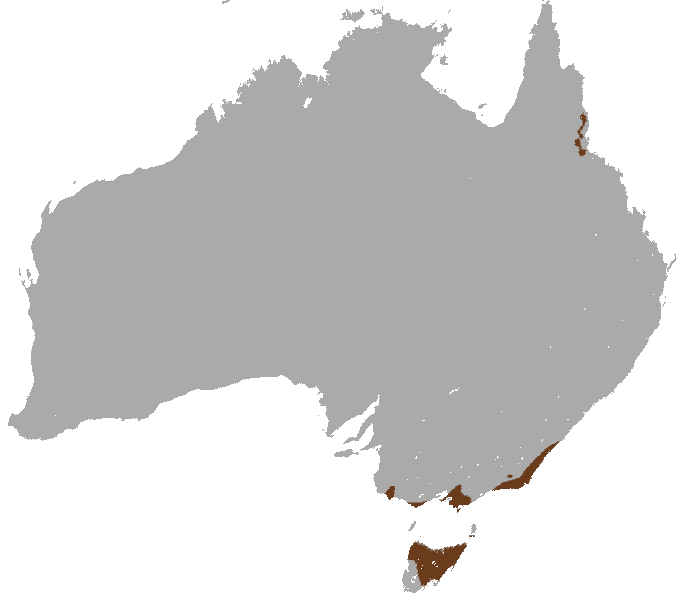 White-footed Dunnart (Sminthopsis leucopus) range